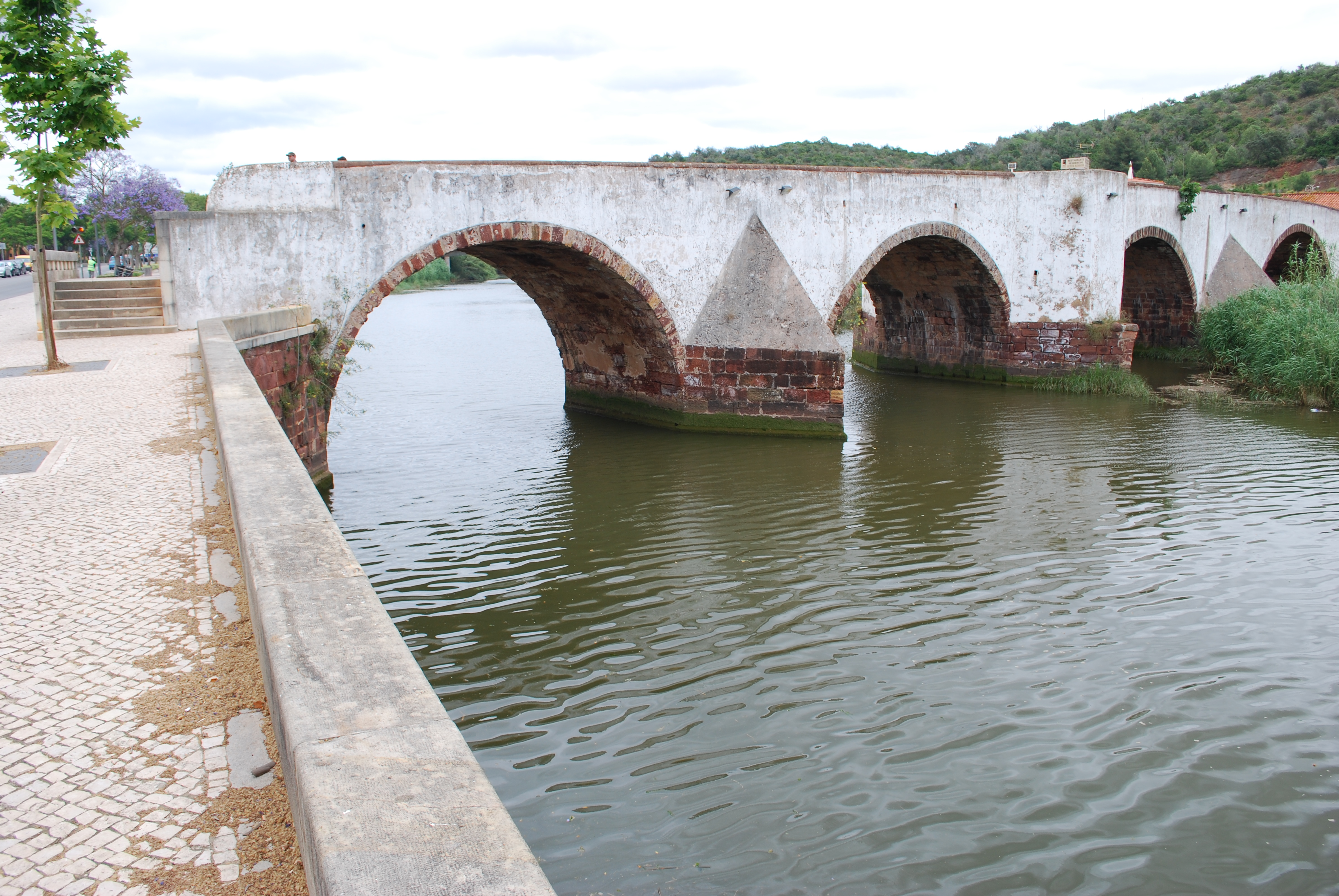 This file was uploaded for Wiki Loves Monuments in Portugal with the unique identifier 97002849.